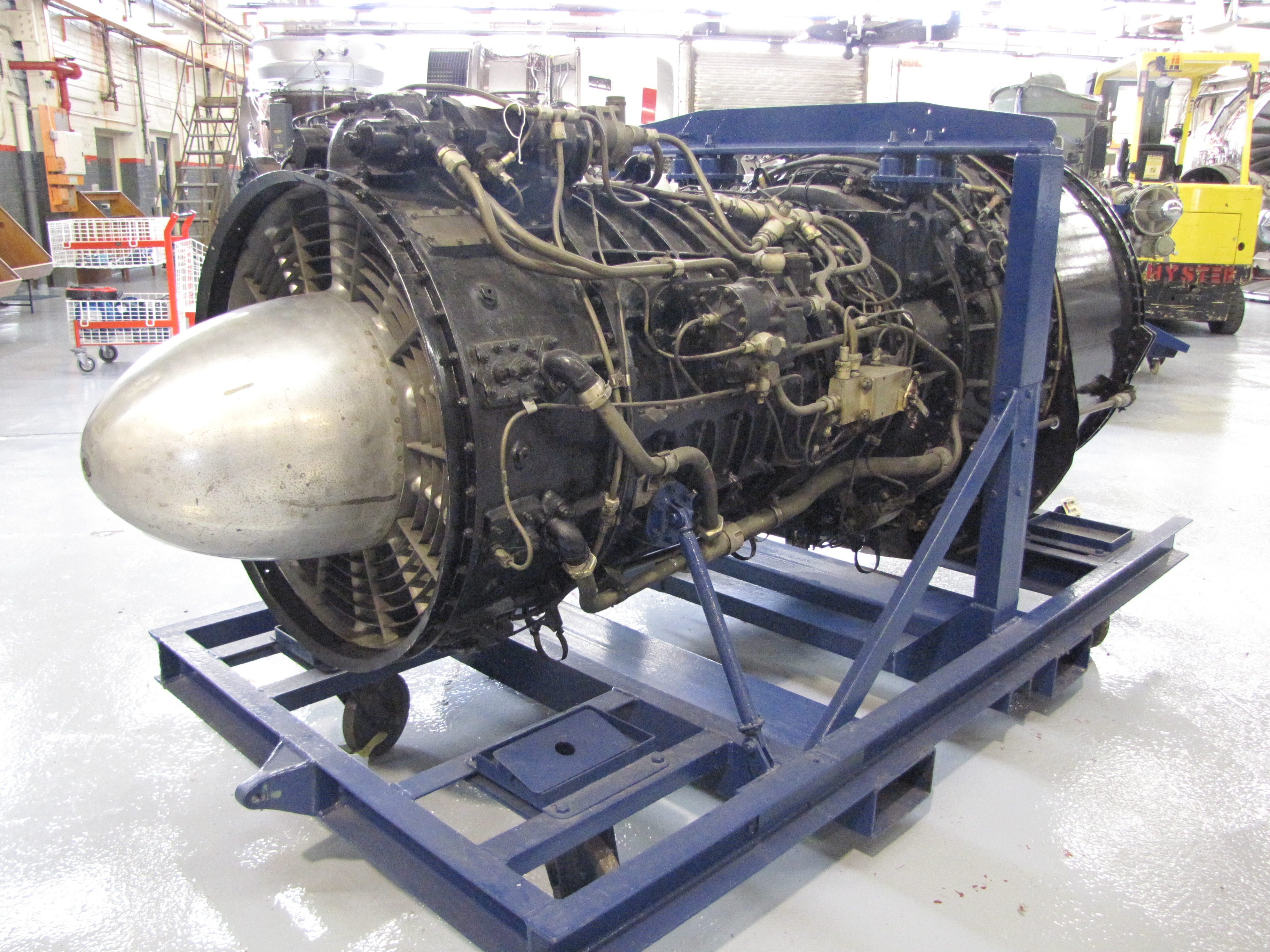 Beryl 3/4 view